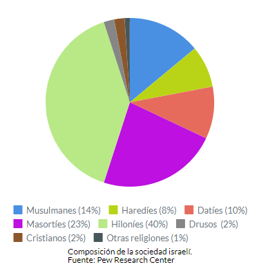 Israel's society